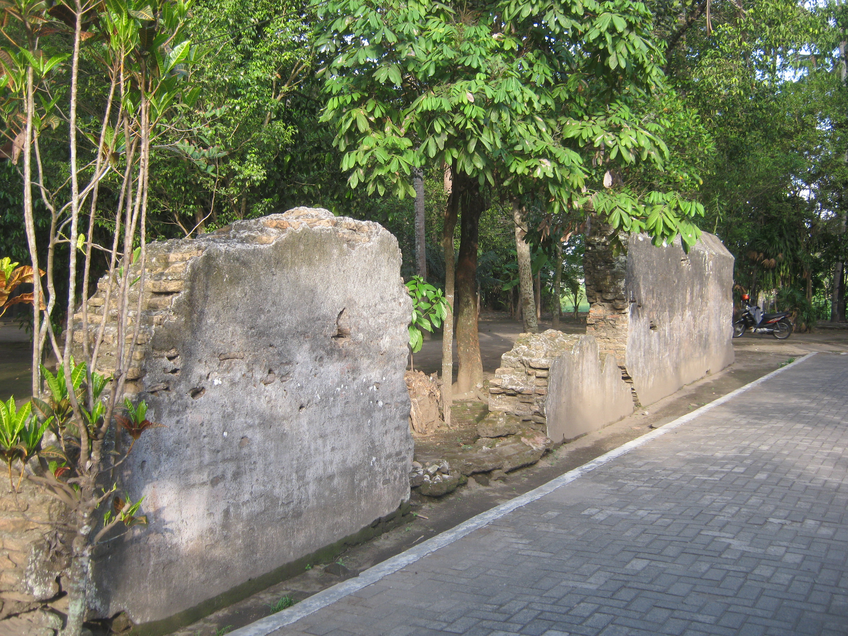 Pesanggrahan ini dibangun oleh Pangeran Mangkubumi dan sekarang dalam keadaan rusak